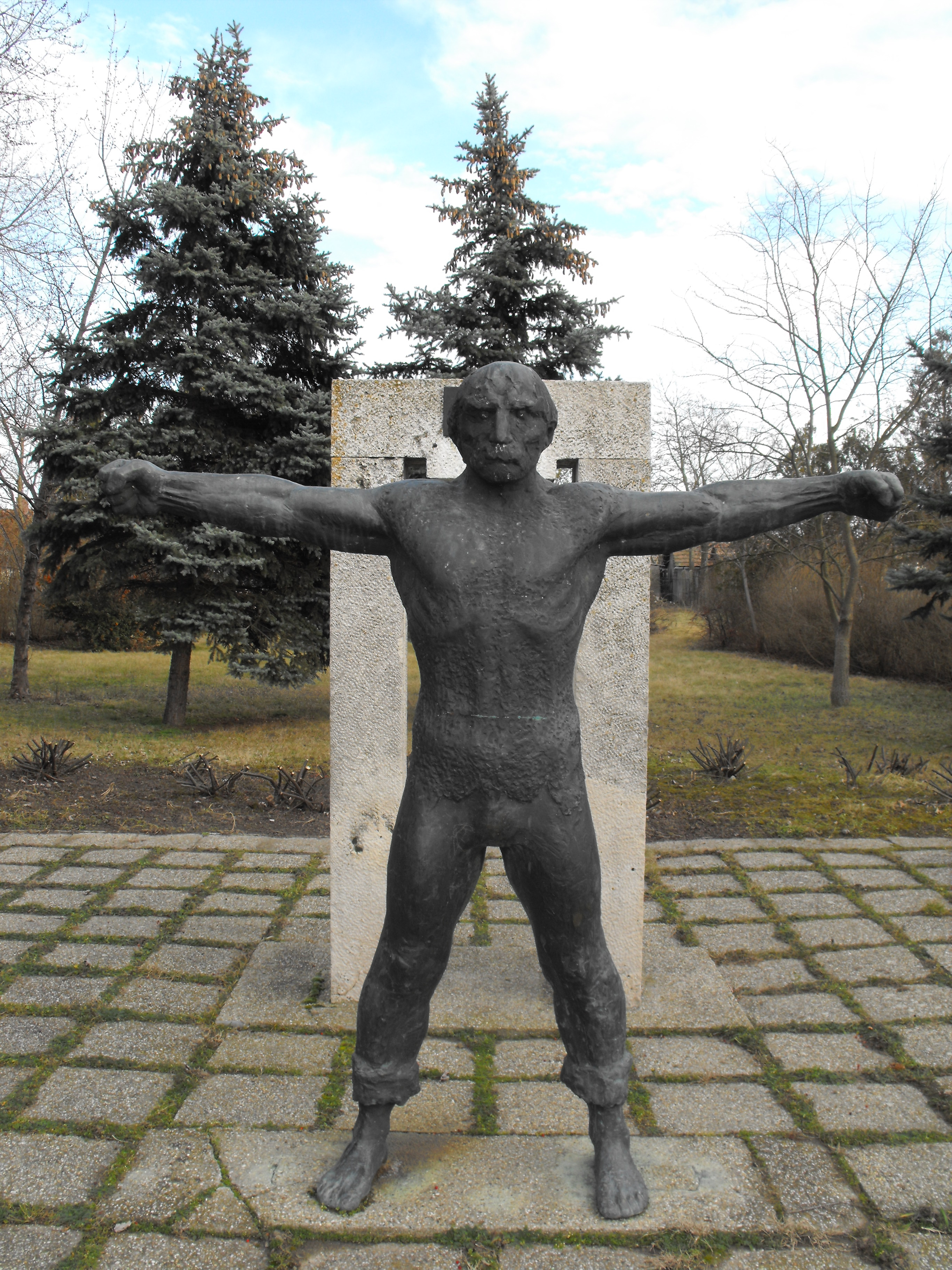 Statue of György Dózsa, leader of the Hungarian Peasant Revolt in 1514. Sculptor is András Lapis, statue is located in Nagylak, Hungary.